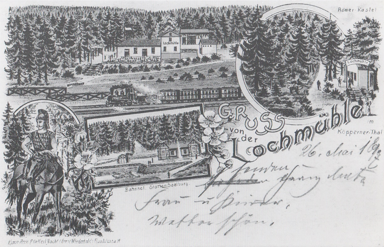 Old postal card of the "Lochmühle", Hochtaunuskreis, Germany